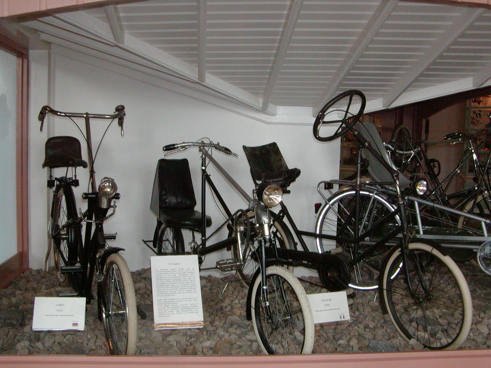 Recumbent bicycles from the Nineteenthirties, National Bicycle Museum Velorama in Nijmegen, Netherlands: Mochet Velocar (center), Velostable (right)